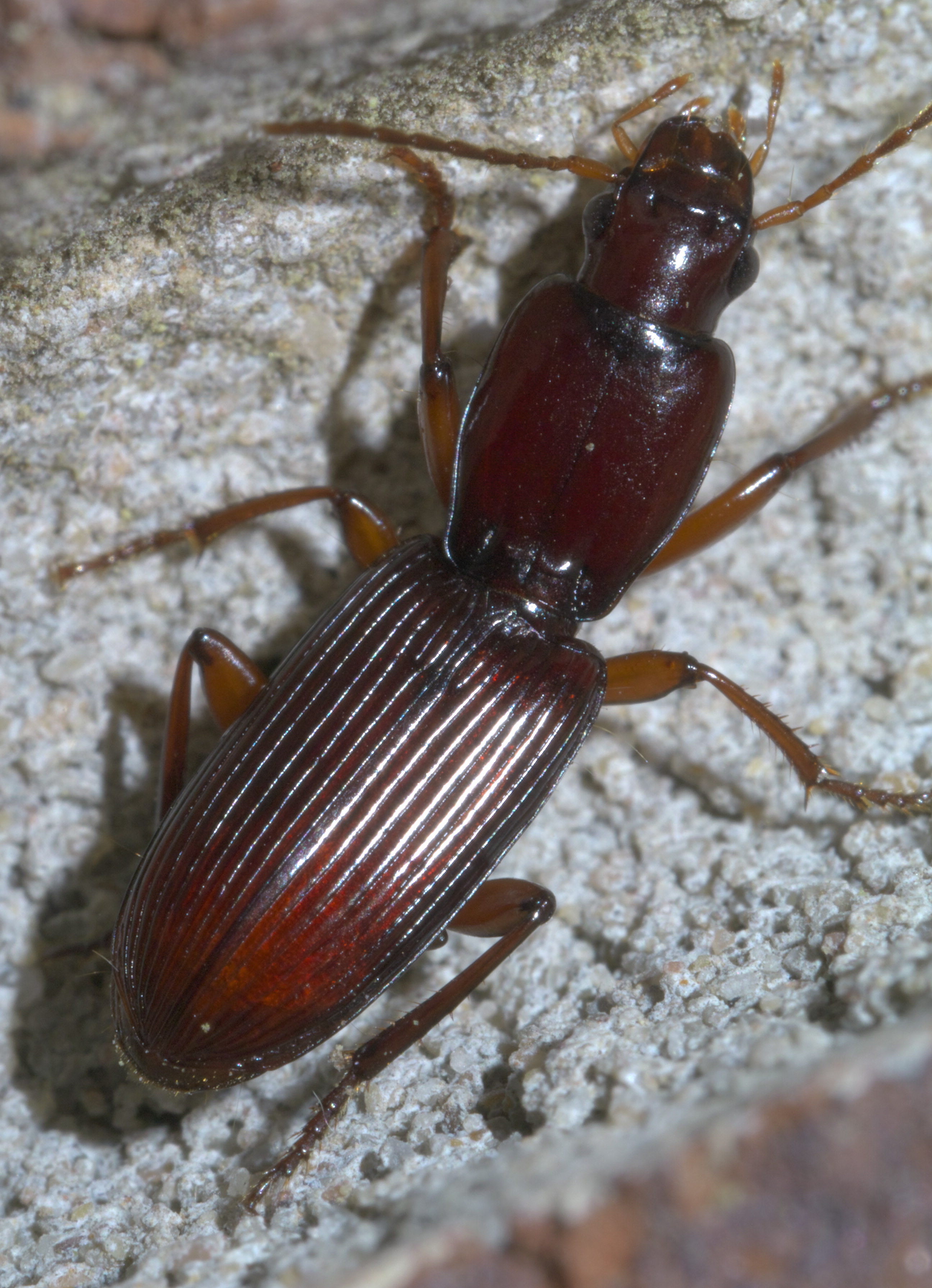 Stenomorphus californicus rufipes, Family: Ground Beetles, Stenomorphus californicus rufipes, Size: 11.5 mm, ID Confidence: 96